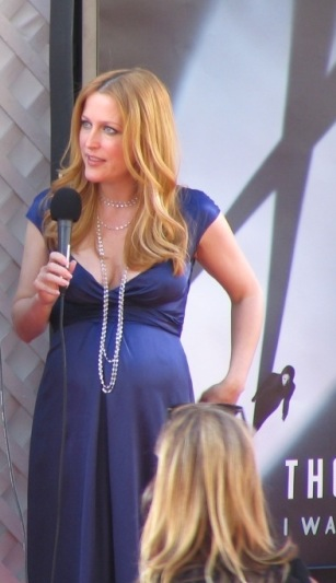 Actress Gillian Anderson at the premiere of "X-Files: I Want To Believe"